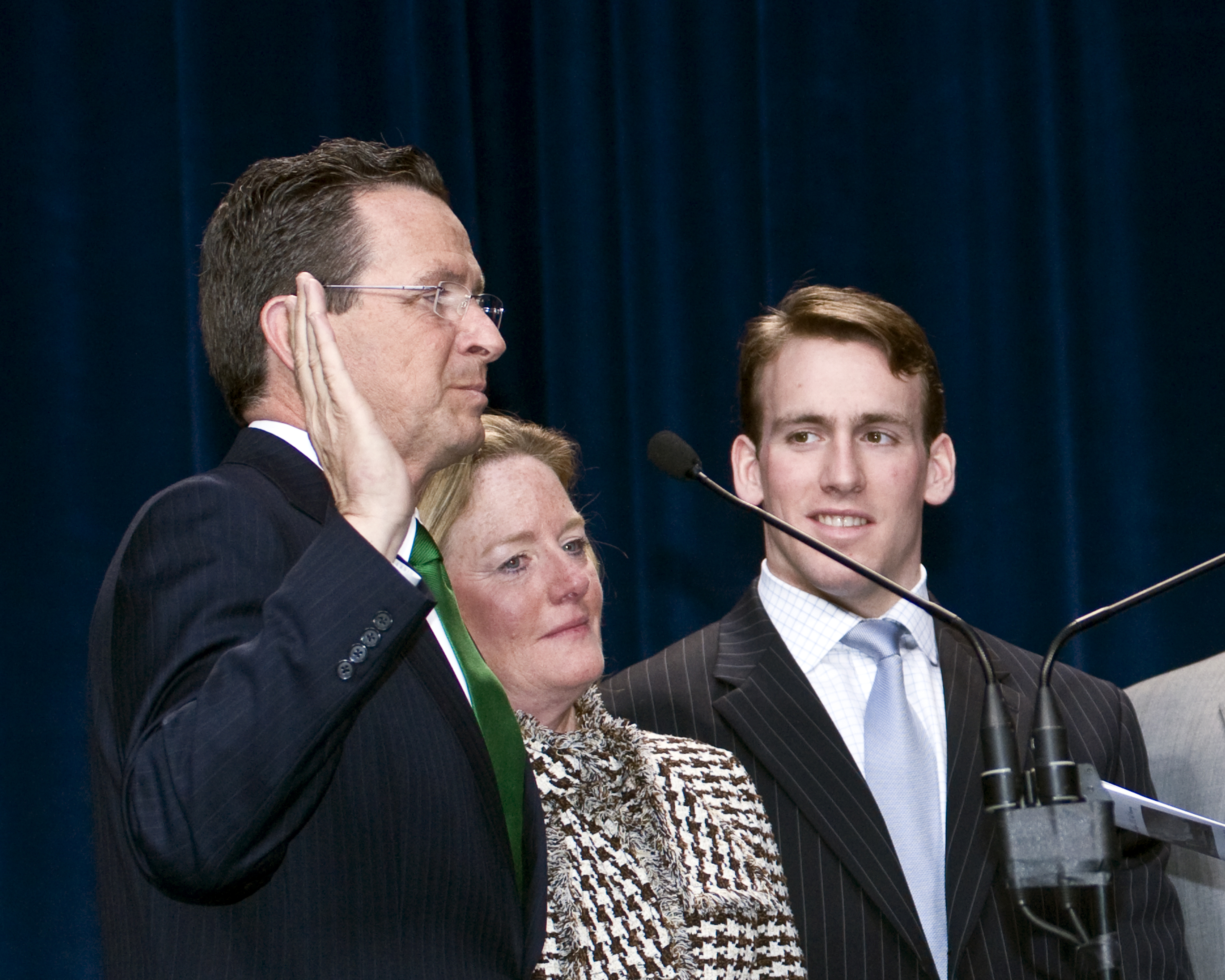 The inauguration ceremony of Connecticut Governor Dannel P. Malloy. January 5, 2011